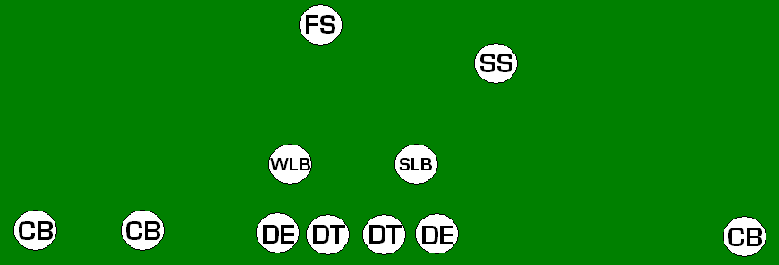 Created by: Jason R Remy